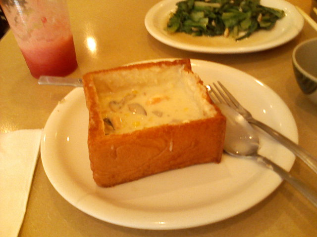 Creamy soup in a fried dough, as known as coffin board, by Taiwanese.